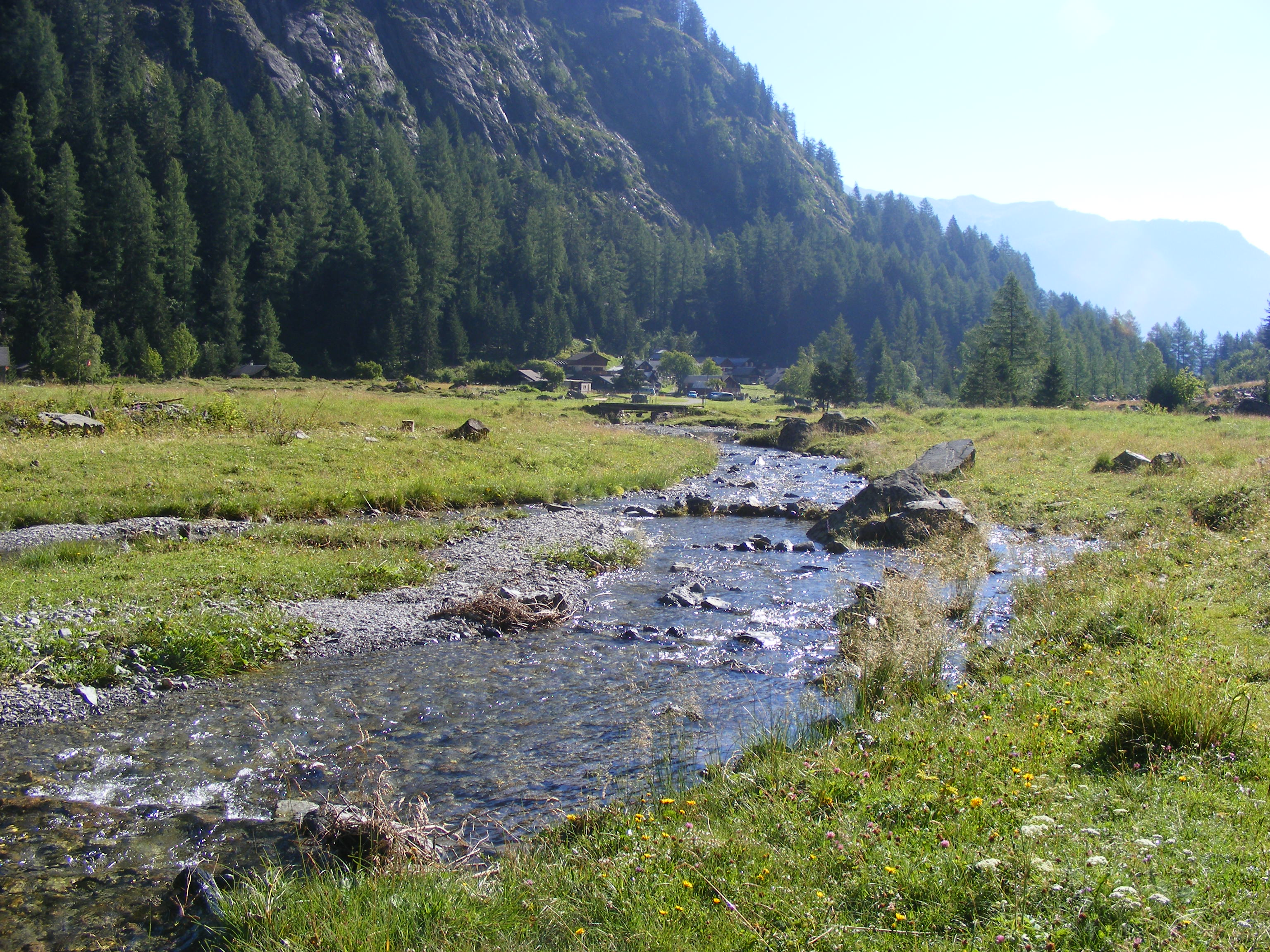 This photo shows the river Salanfe, I took this photo near Van d'en Haut, Valais, Switzerland